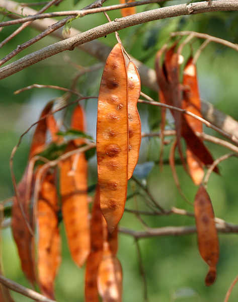 Doon Siris Albizia procera at Jayanti in Buxa Tiger Reserve in Jalpaiguri district of West Bengal, India.